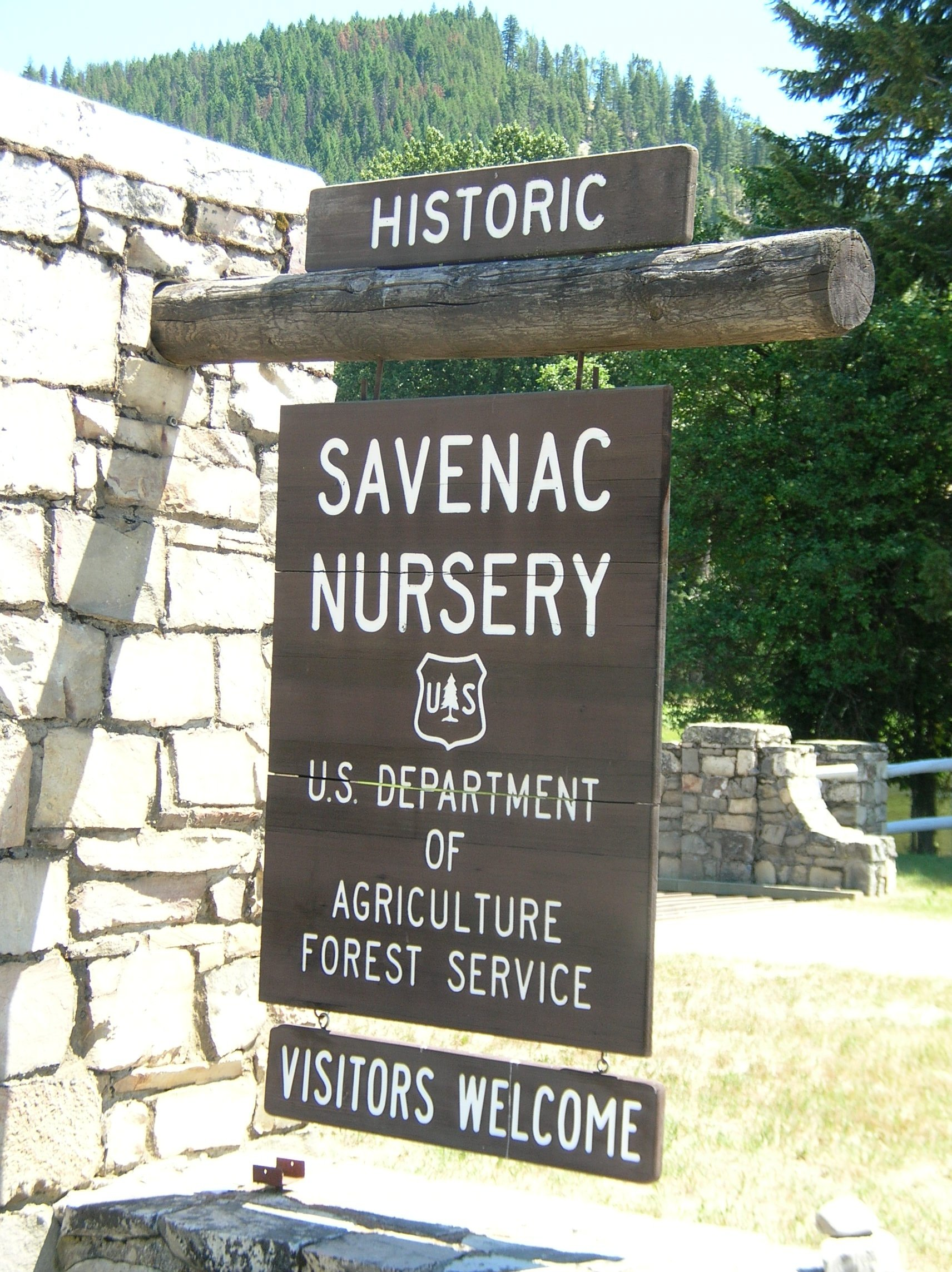 Savenac Historic Tree Nursery is located near Haugan, Montana. Savenac was once one of the largest and oldest USDA Forest Service tree nurseries in the western United States. It operated from 1907 until 1969. Savenac once produced million seedlings annually for use in reforestation of national forests throughout the United States. Its former operations have been moved to the Coeur d'Alene Nursery in Idaho. Savenac was formally listed in the National Register of Historic Places during 1999. Savenac was designated a National Historic Site during 2000. Today ten buildings built during the 1930s by the Civilian Conservation Corps remain at the site, together with landscaped grounds, interpretive trails and a small arboretum.